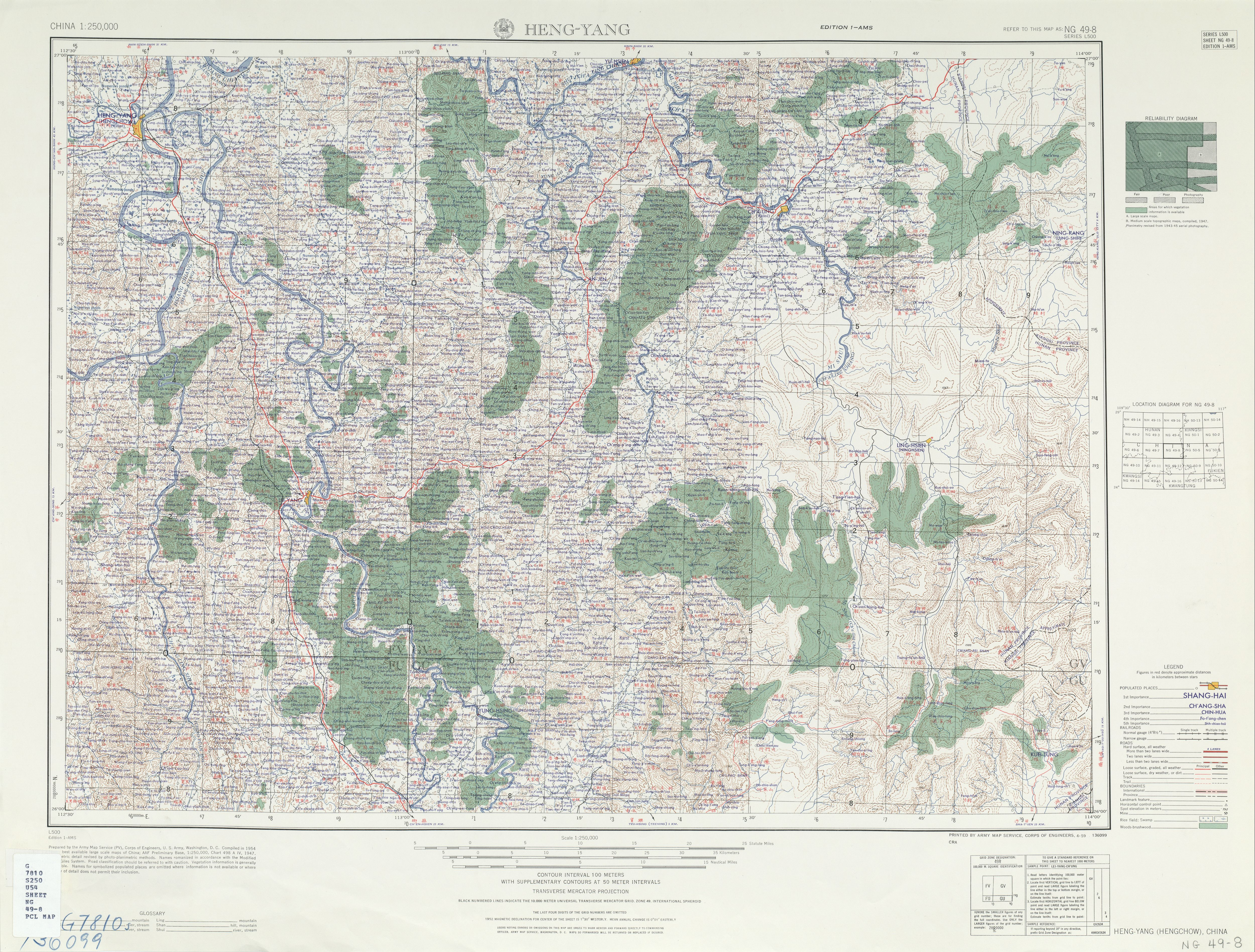 China AMS Topographic Maps